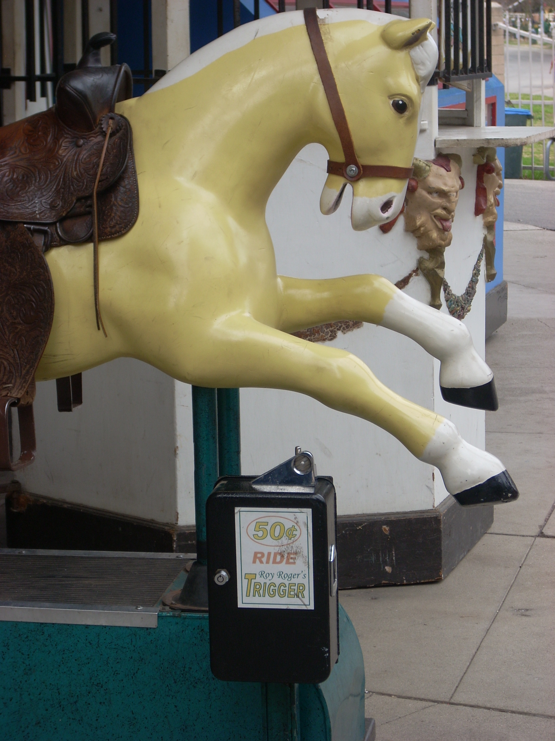 Roy Rogers' Trigger ride at Griffith Park Carousel in Los Angeles California